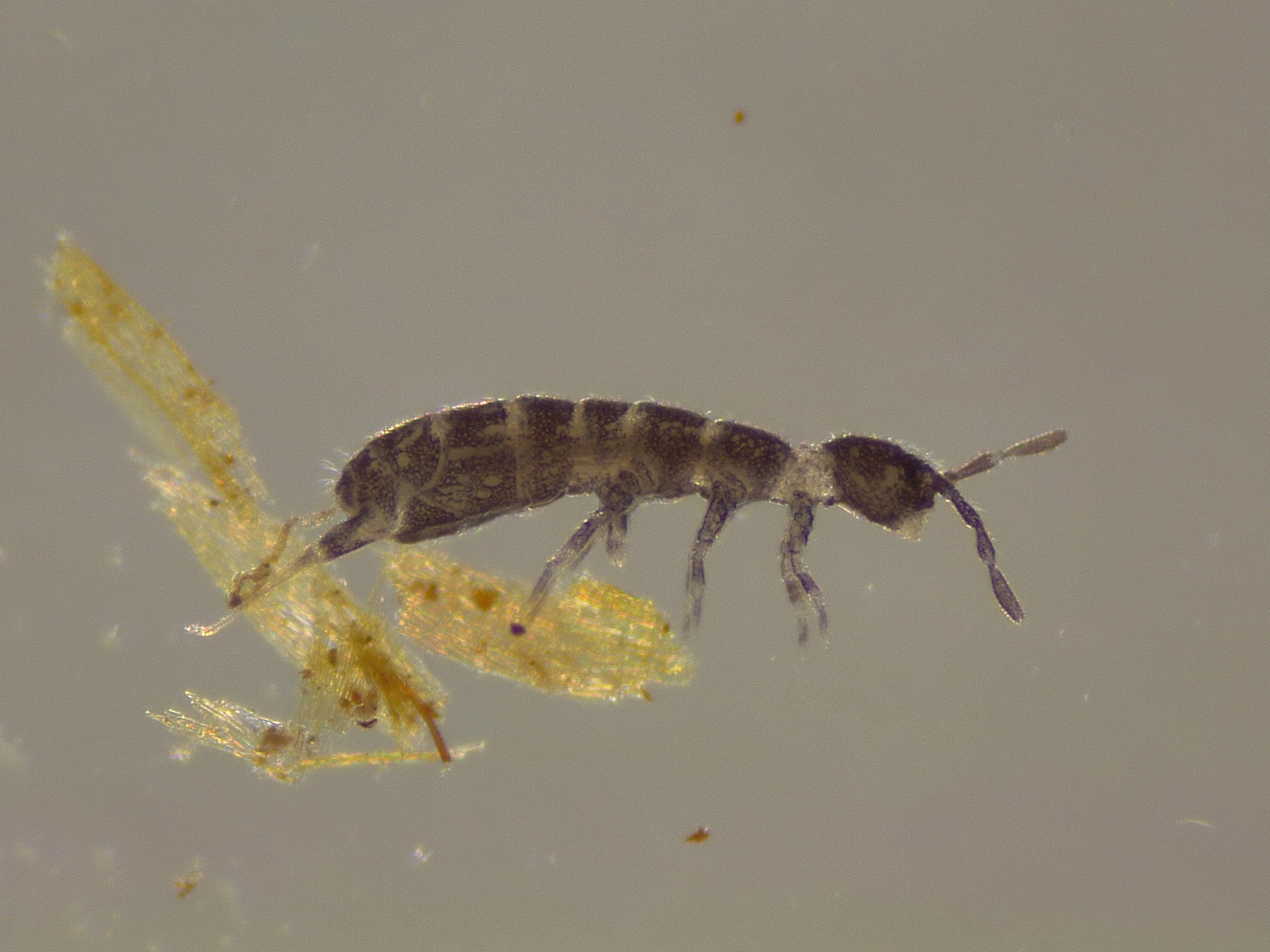 Parisotoma notabilis (Schaeffer, 1896), , extracted using Berlese funnel from mossy log, Søborg, Denmark, 24-25 August 2017